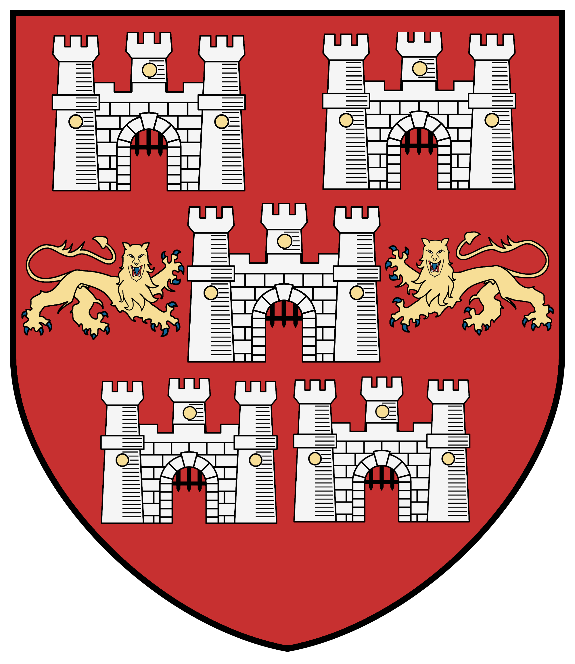 Arms of the English city of Winchester, as recorded in the 1686 visitation of the County of Southampton. Blazon: Gules five Castles triple towered in saltire Argent masoned proper the Portcullis of each part-raised Or and on either side of the castle in fess point a Lion passant guardant that to the dexter contourné Gold.